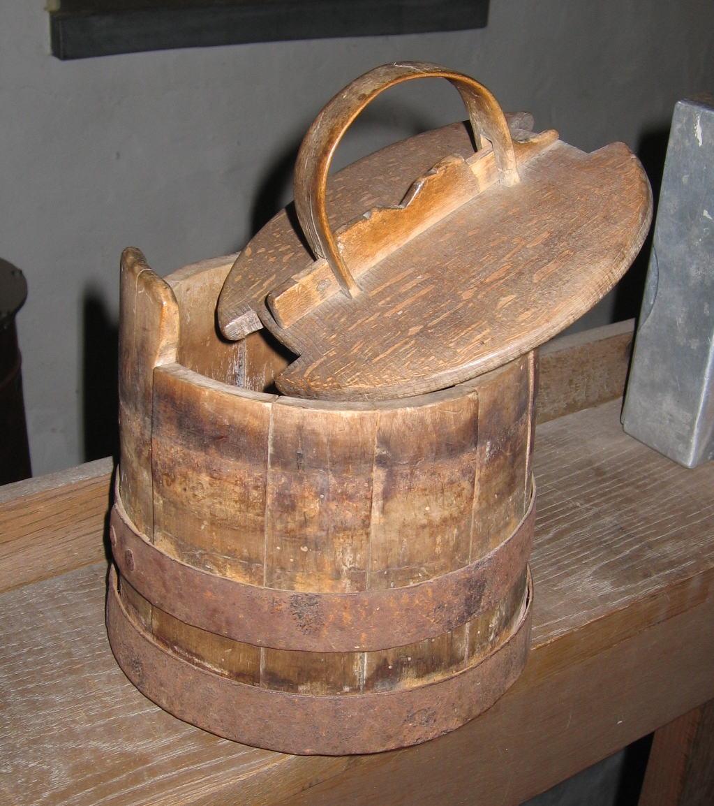 Wooden food carrier, Heimatmuseum,, Meschede-Eversberg, Germany.